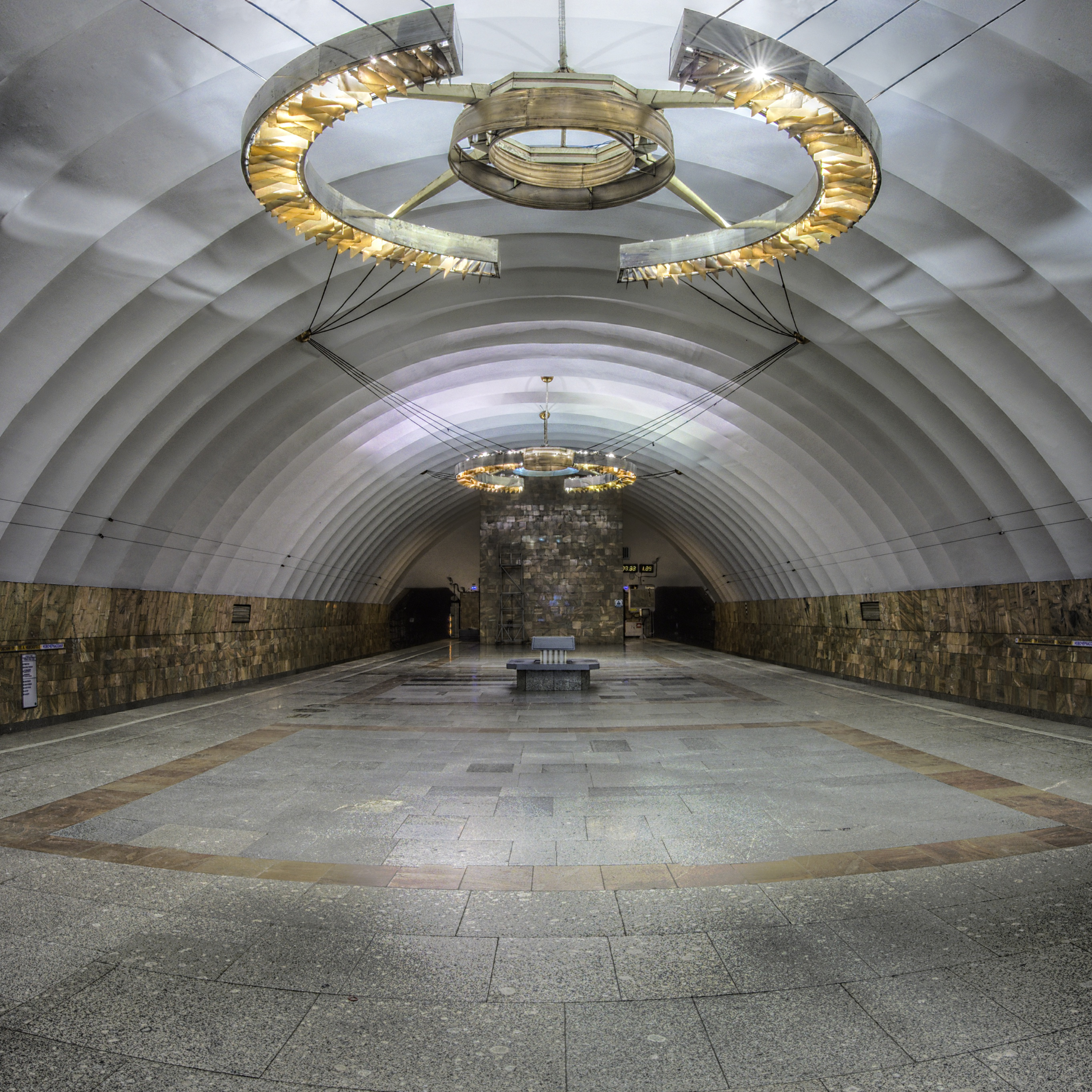 Saint Petersburg Metro, Novocherkasskaya station